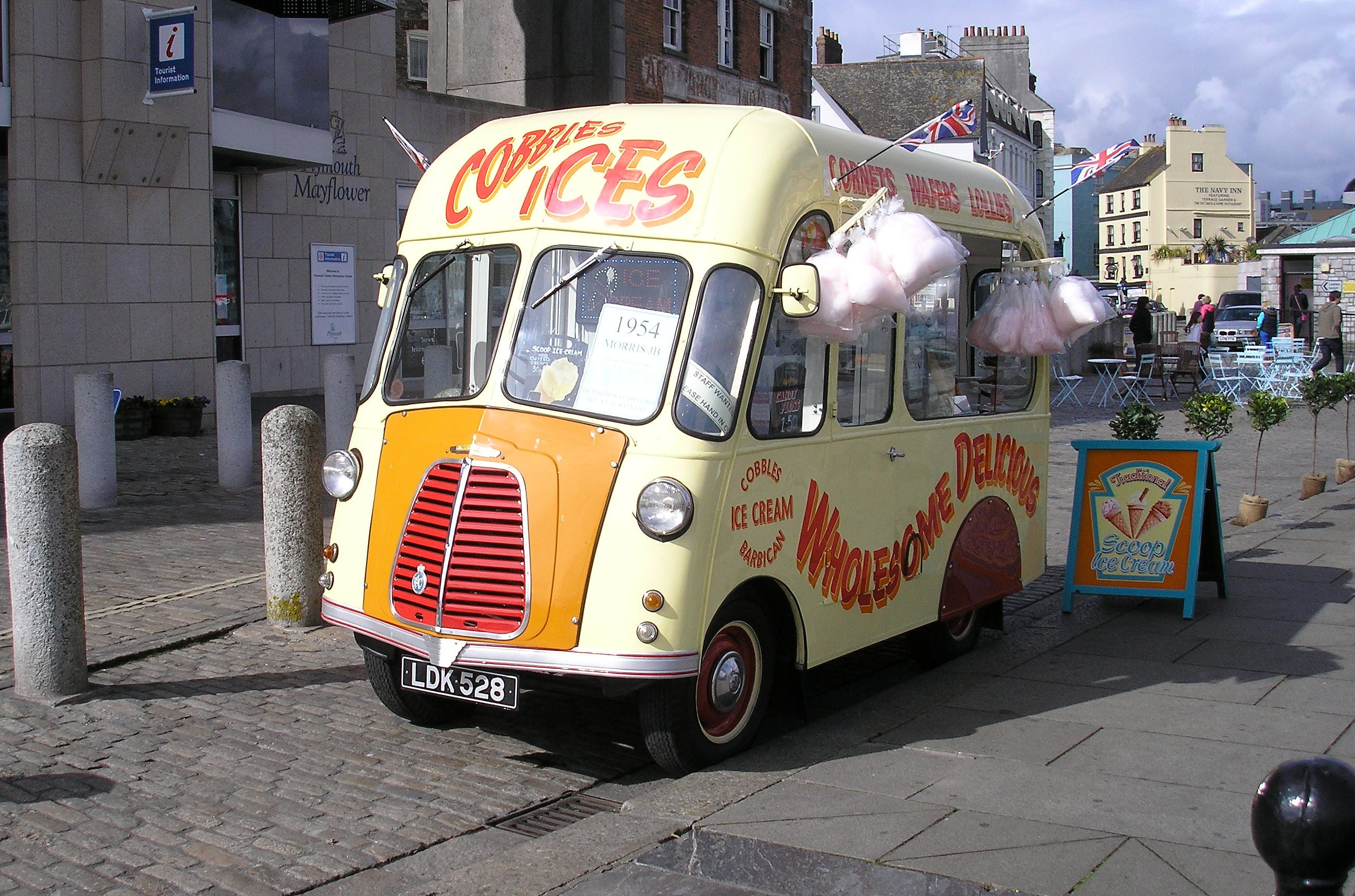 Still hard at it after 58 years of graft, this 1954 Morris Commercial ice cream sales van, seen trading on the Barbican at Plymouth on 17th March 2012. Camera: Olympus FE-120 Digital.